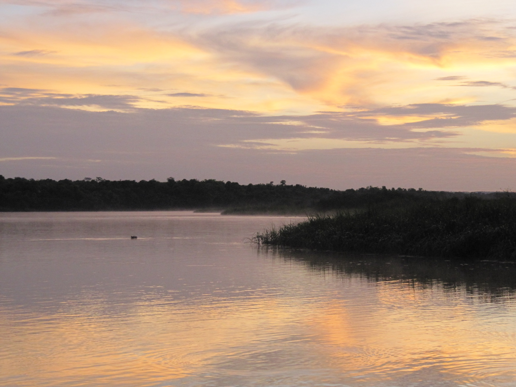 Morning on Nile in Murchison falls National Park